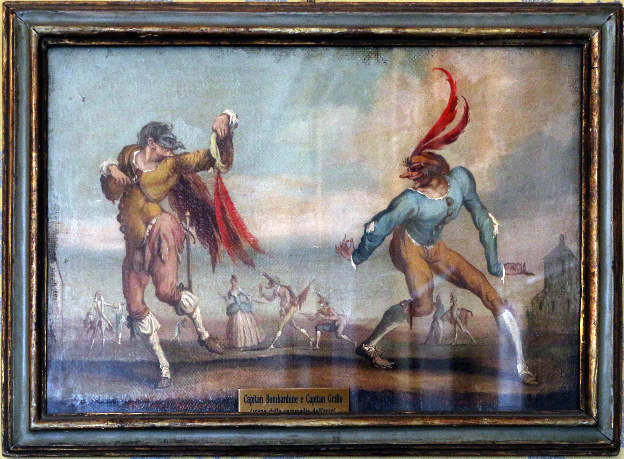 Museo del Teatro alla Scala (Milan)